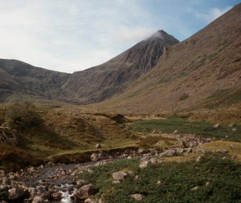 Carrantuohill (center) looking south along the Hag's Glen